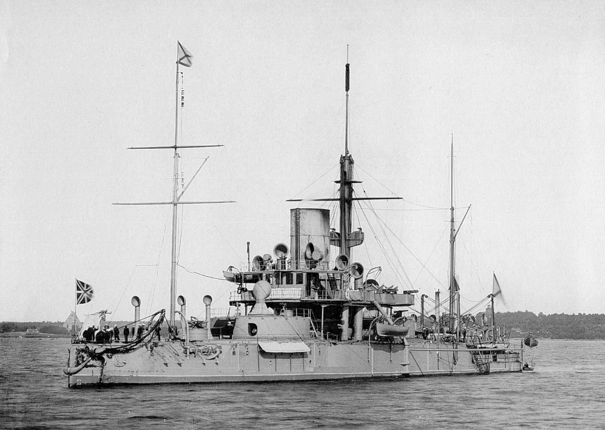 Imperial Russian ironclad warship Petr Velikiy.